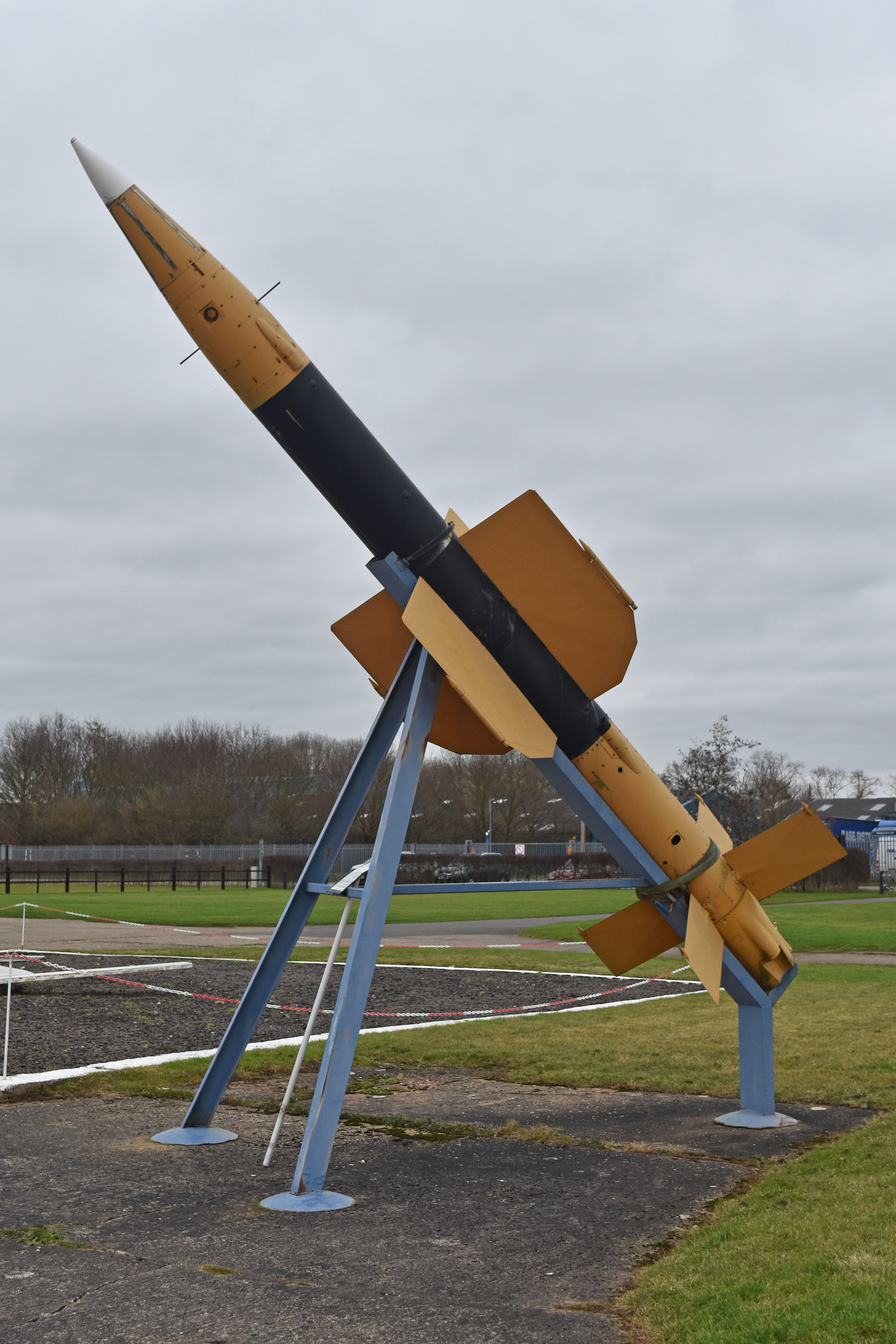 Seaslug was a first-generation surface-to-air missile which was in service from 1961 to 1991. Initially intended to attack high-flying aircraft, it was later modified as an anti-ship missile. This example (a Mk1?) is on display at Wickenby Aerodrome, Lincolnshire, UK 5th January 2020